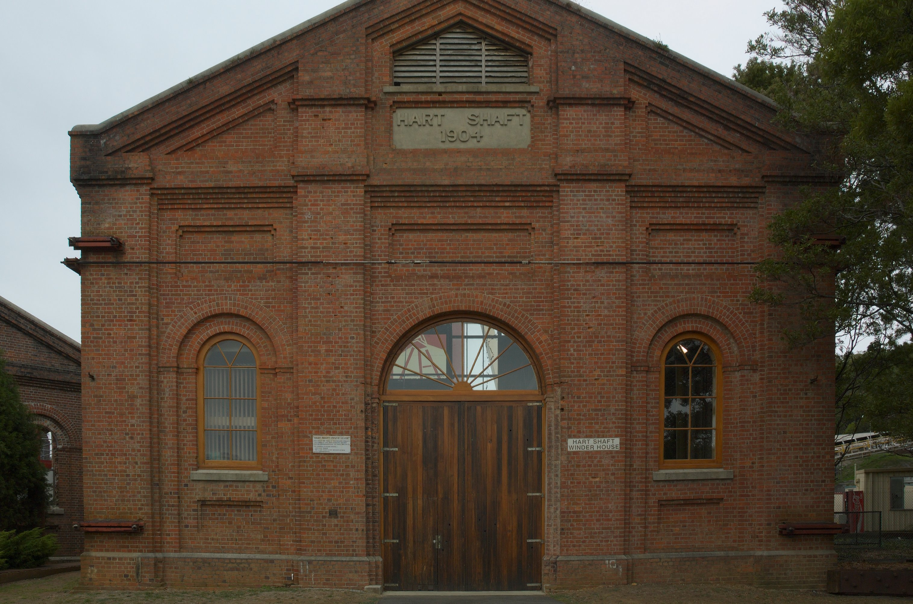 Hart Shaft winder house building dated 1904 in Beaconsfield, Tasmania. I think this was no longer a working mine building, but part of the museum.